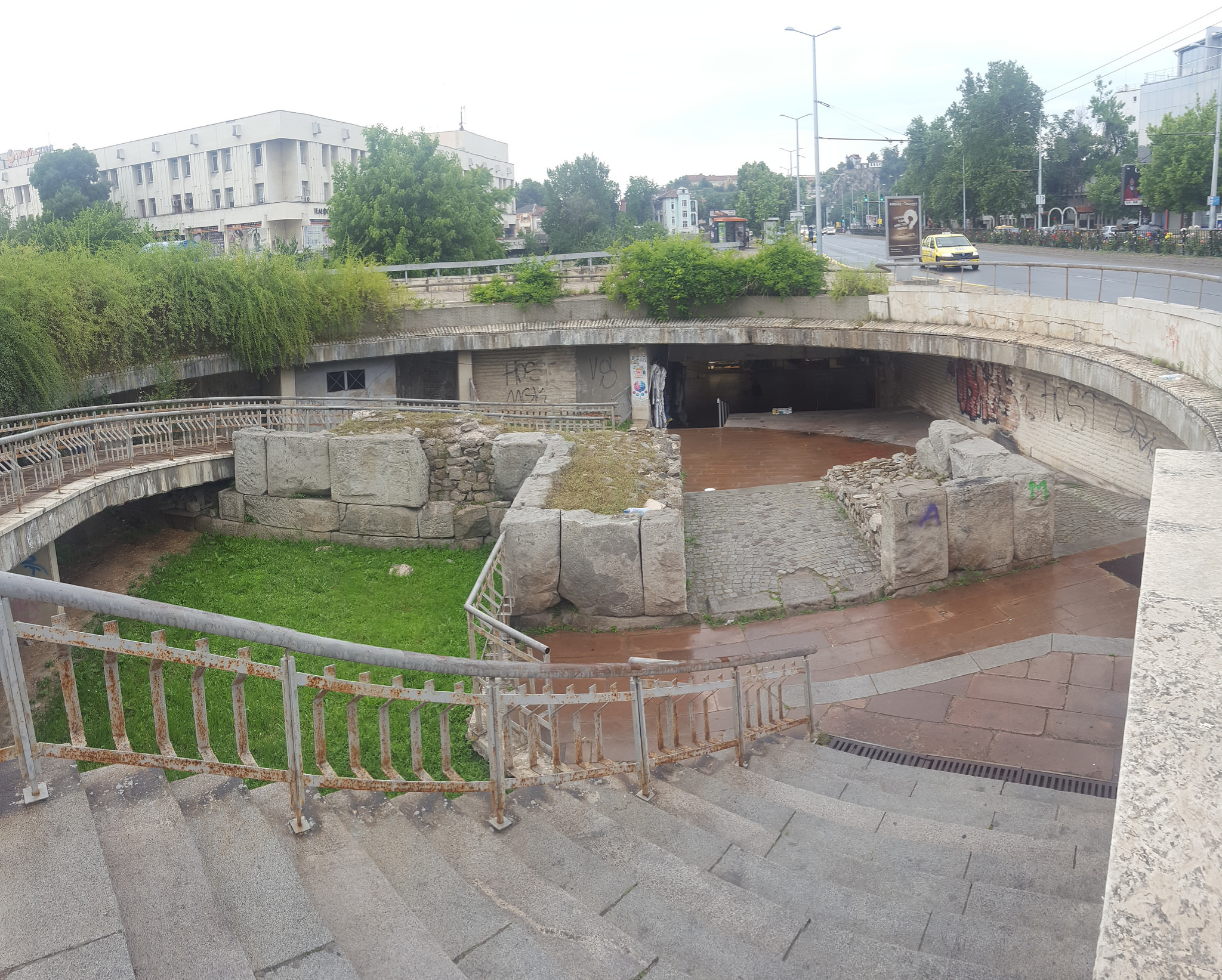 The Southern gate of Philippopolis.